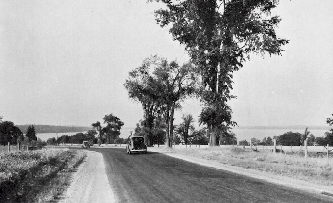 A photo of Highway 35 overlooking Cameron Lake, northwest of Fenelon Falls.